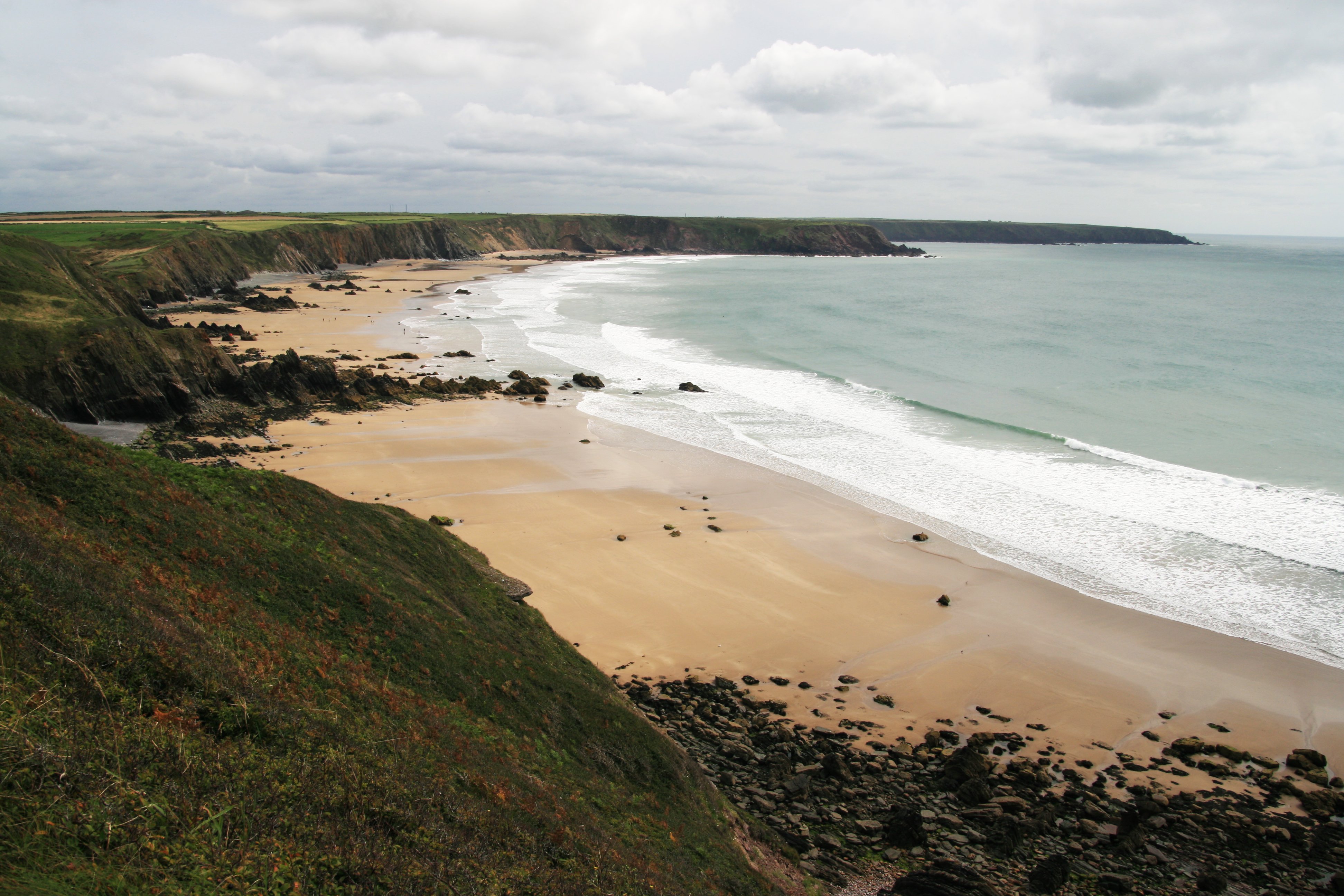 Marloes beach, Pembrokeshire, Wales. From the west.